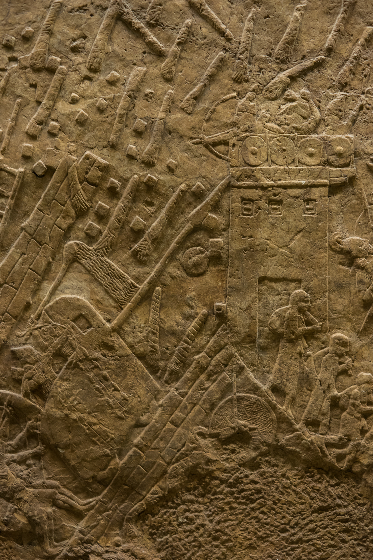 British Museum - Room 10